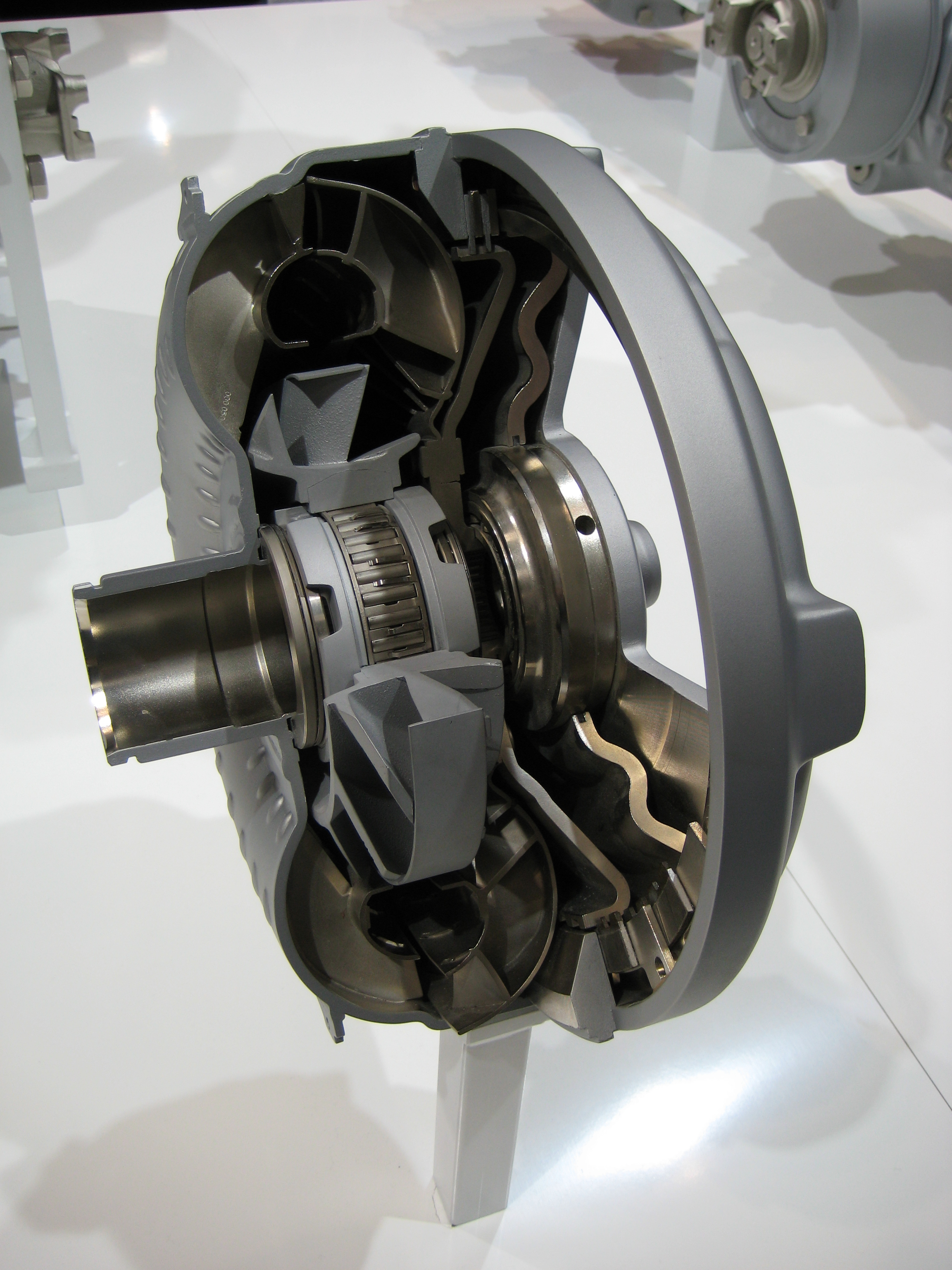 BAUMA 2007, ZF Torque converter, cut-away